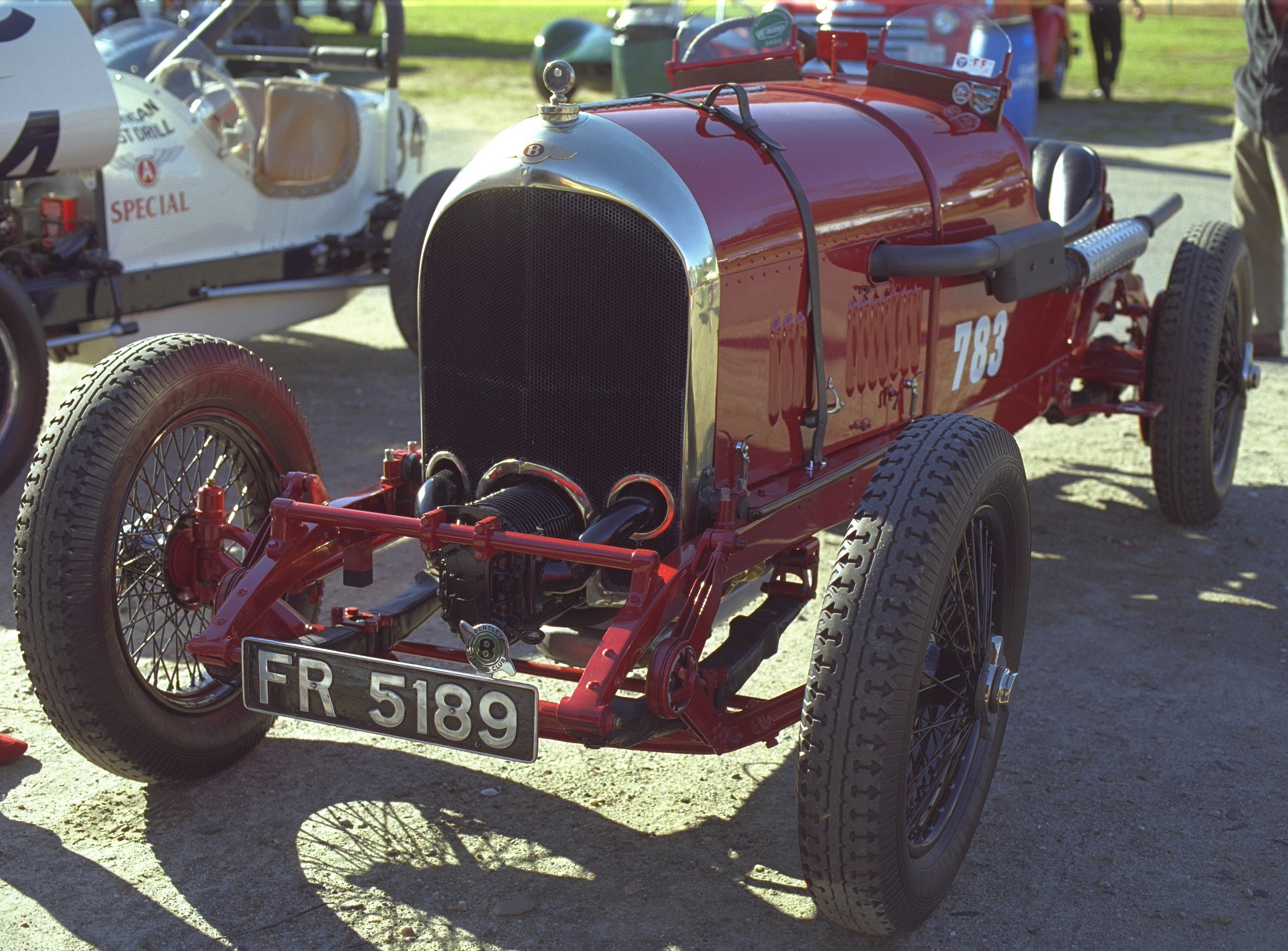 1924 3-litre Bentley in paddock at Lime Rock Park, 2000